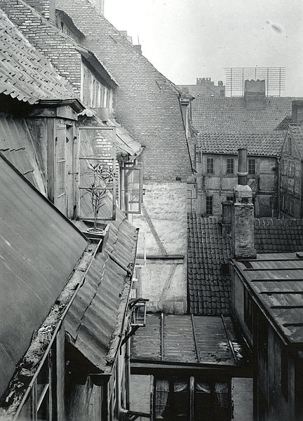 Slum in the district around Borgergade-Adelgade in Copenhagen, Denmark. Pre-1940